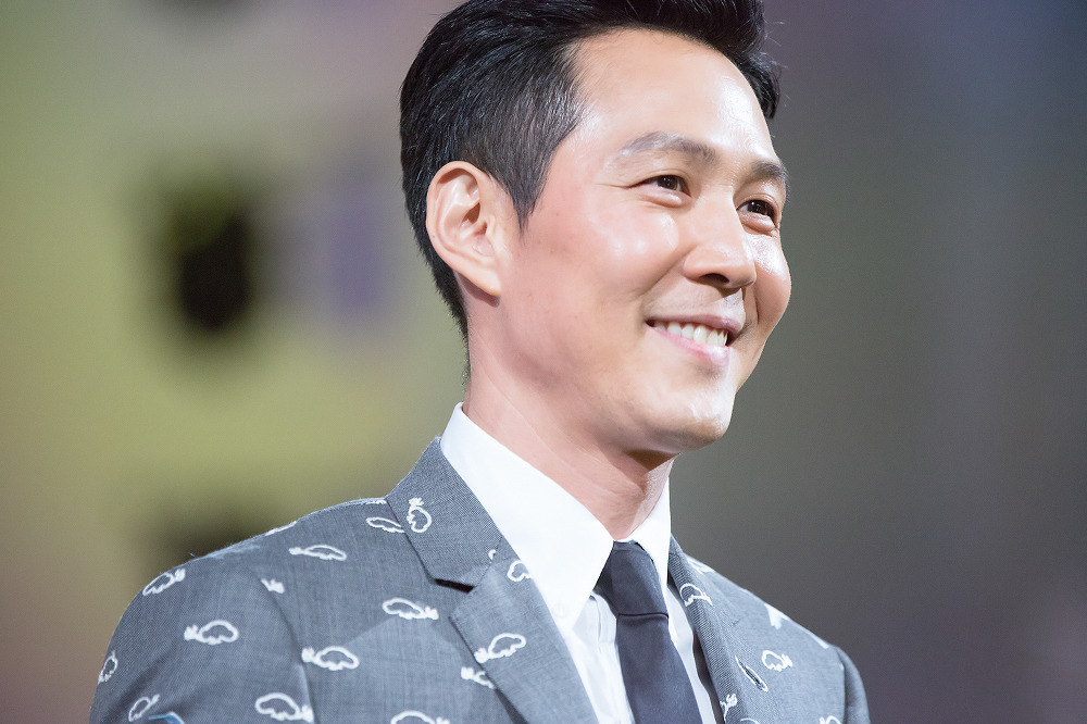 Actor Lee Jeong-jae